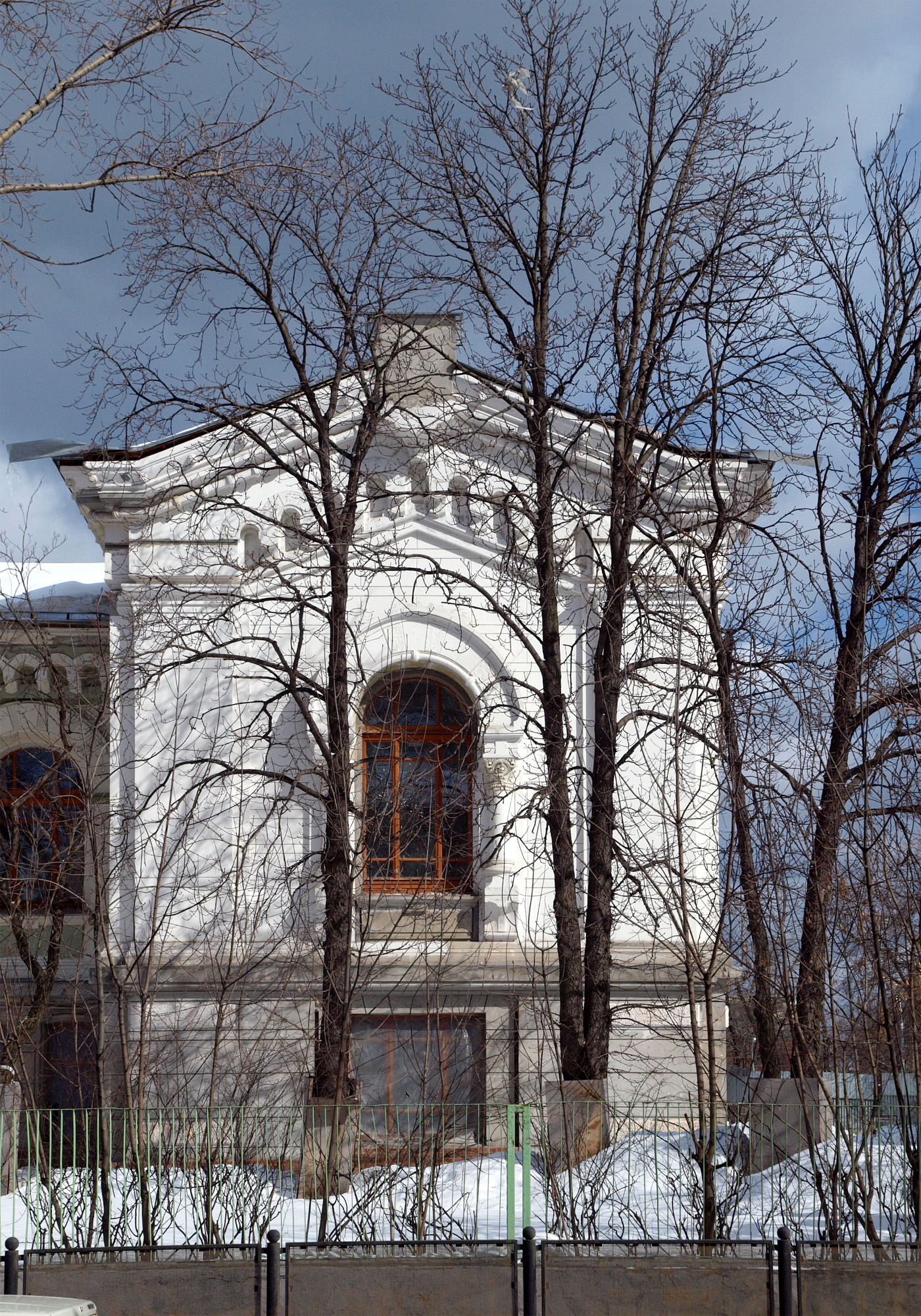 Verkhnaya Krasnoselskaya Street, Moscow. The former Geyer Almshouse.